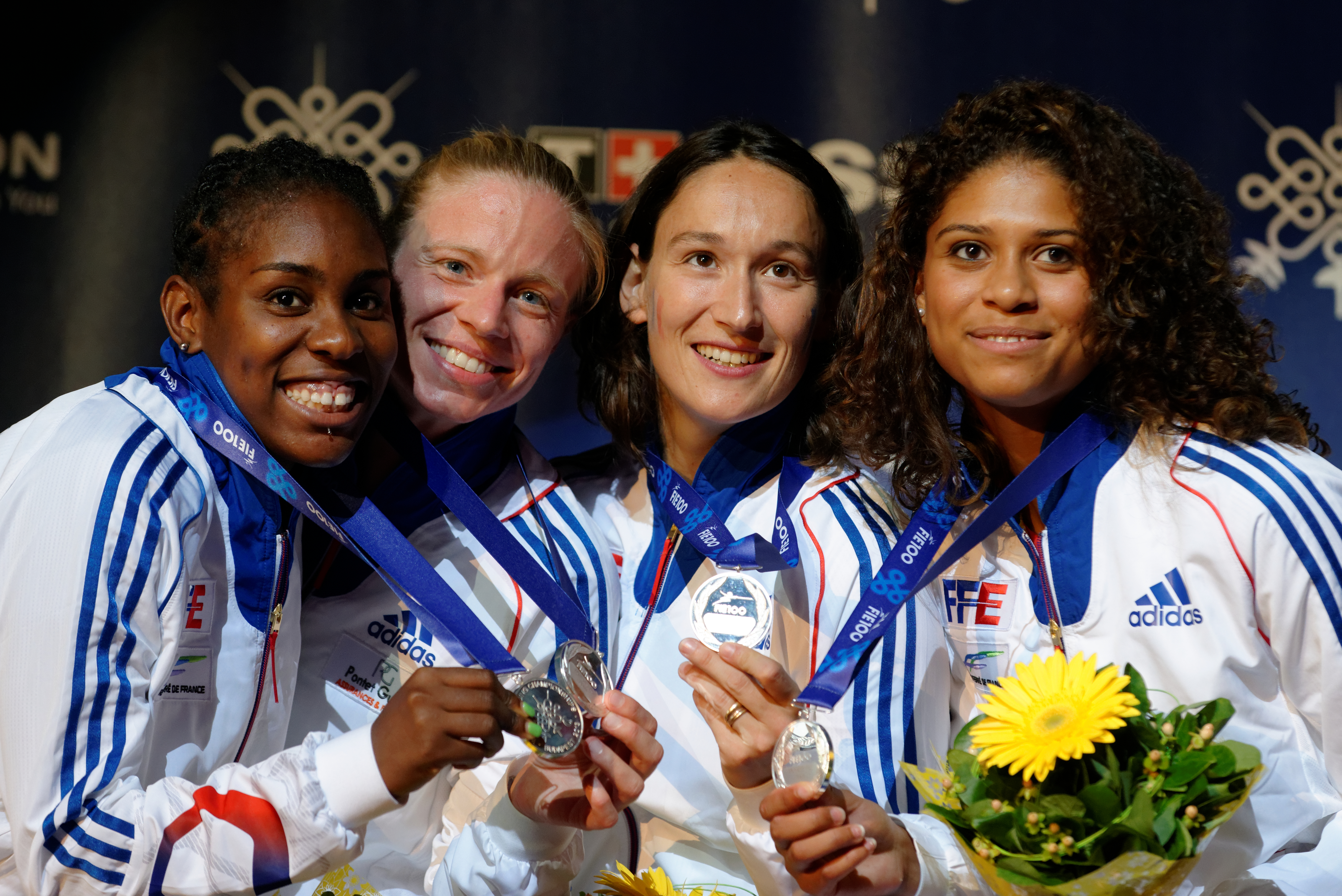 France women's team foil (from left to right, Anita Blaze, Astrid Guyart, Corinne Maîtrejean, and Ysaora Thibus) stand on the podium of the 2013 World Fencing Championships 2013 at Syma Hall in Budapest, 10 August 2013.